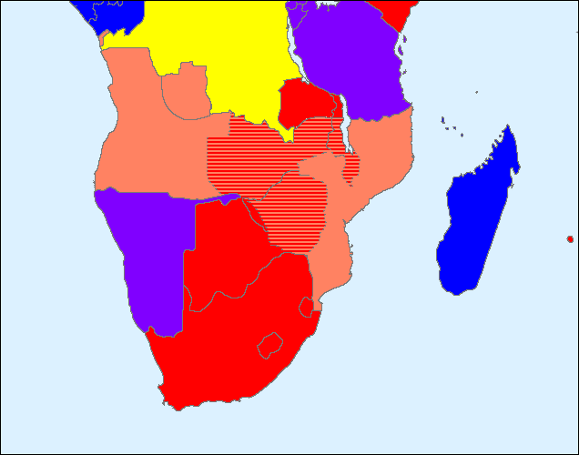 Map of the European colonies in southern Africa in 1914. In red the British colonies, in orange the Portuguese colonies, in yellow the Belgian colonies, in purple the German colonies and in blue the French colonies.